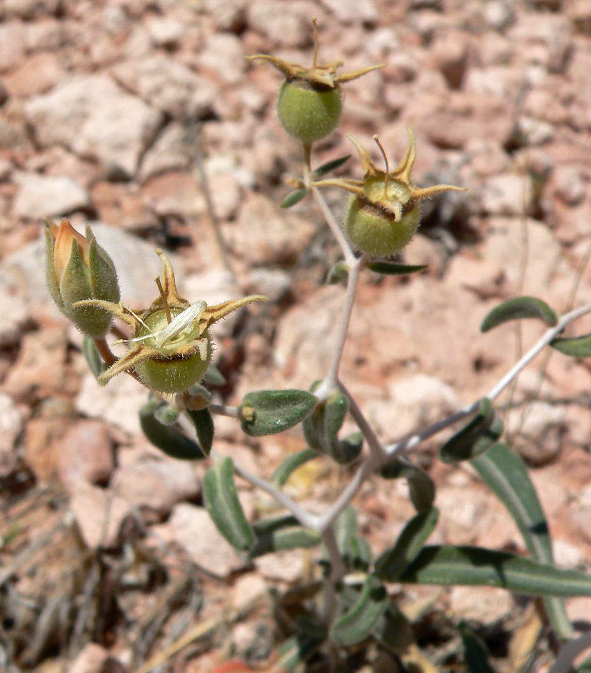 Mentzelia polita in Calico Basin, Red Rock Canyon, southern Nevada